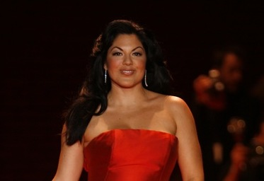 Sara Ramirez modeling at The Heart Truth Fashion Show 2008